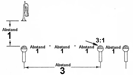 Die 3:1-Regel (Drei-zu-eins-Regel) für die Mikrofonaufstellung zur Minimierung von hörbaren Kammfiltereffekten lautet: Hat ein Instrument einen bestimmten Abstand x = 1 zu einem Mikrofon, so soll das nächste Mikrofon, das diesen Schall auch aufnimmt, mindestens das Dreifache des Abstands vom ersten Mikrofon (also x = 3) haben. The 3:1-Regel (three-unity rule) for the microphone list for the minimization of audible comb filter effects reads: If an instrument has a certain distance x = 1 to a microphone, then the next microphone, which also takes up this sound, is to have at least the three-way of the distance from the first microphone (thus x = 3).